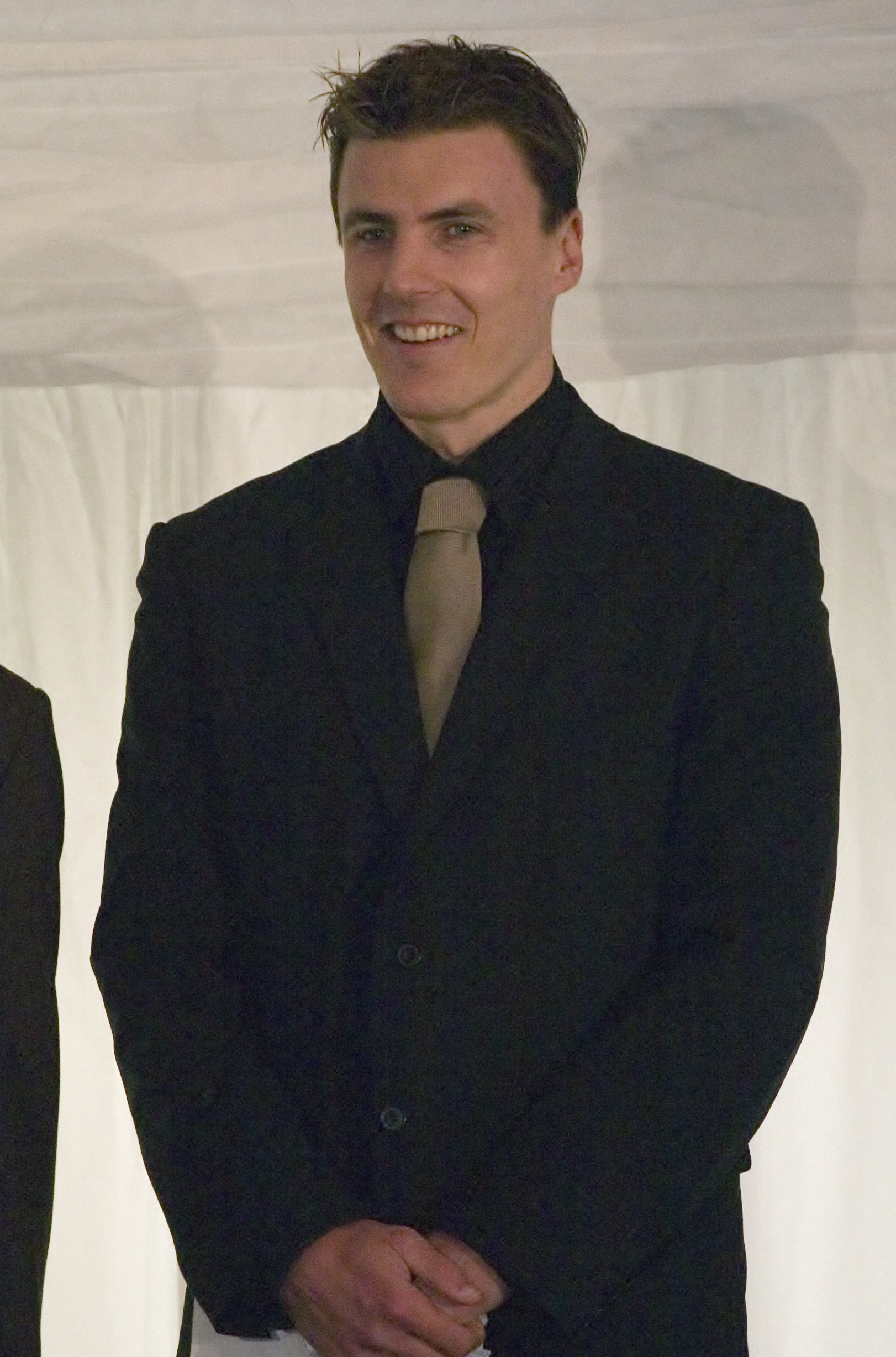 Matthew Lloyd speaking at a function ahead of the 2005 AFL Grand Final